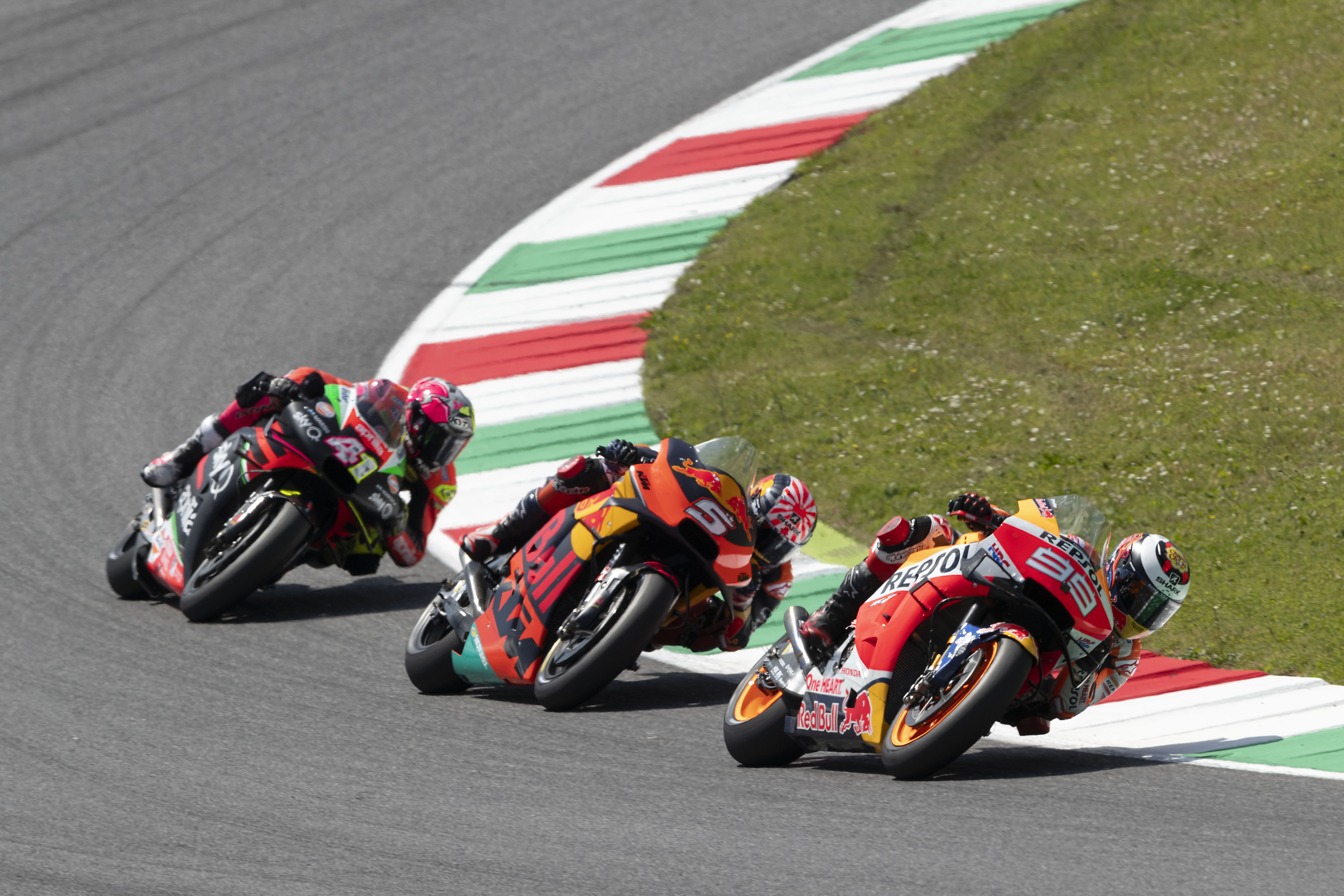 Jorge Lorenzo, riding his Repsol Honda, being closely followed by the Red Bull Factory KTM of Johann Zarco and the Factory Aprilia of Aleix Espargaró at the 2019 Italian Grand Prix.